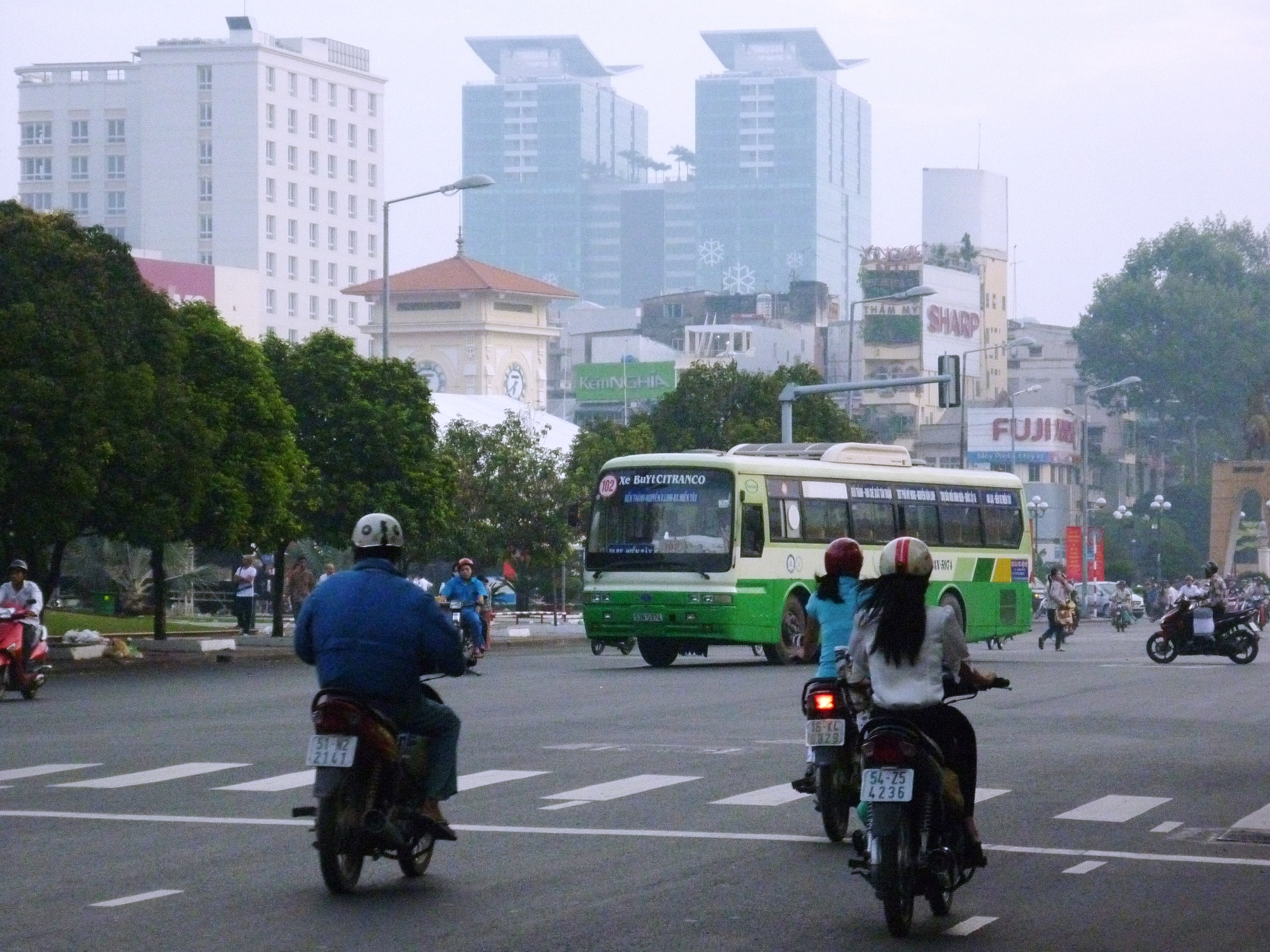 Tran Hung Dao street is 3418-m long from Quach thi Trang roundabout to An Binh street